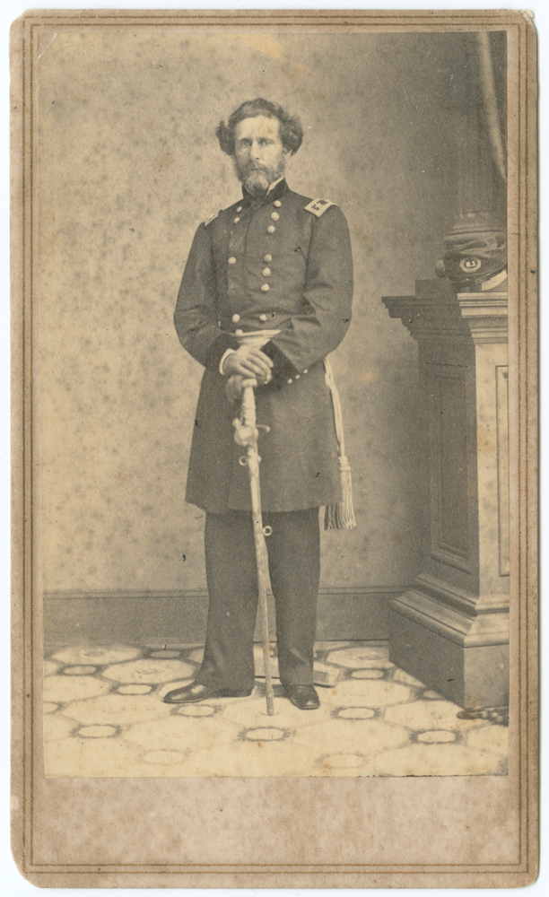 Title: [General John Charles Fremont, Union Army, Republican Candidate for the President of the United States] Creator: Brady's National Portrait Gallery Date: ca. 1861-1865 Part of: Physical Description: 1 photographic print on carte de visite mount; 10 x 6 cm. File: ag2007_0007_066c_fremont.jpg Rights: Please cite DeGolyer Library, Southern Methodist University when using this file. A high-resolution version of this file may be obtained for a fee. For details see the web page. For other information, . For more information and to view the image in high resolution, View the